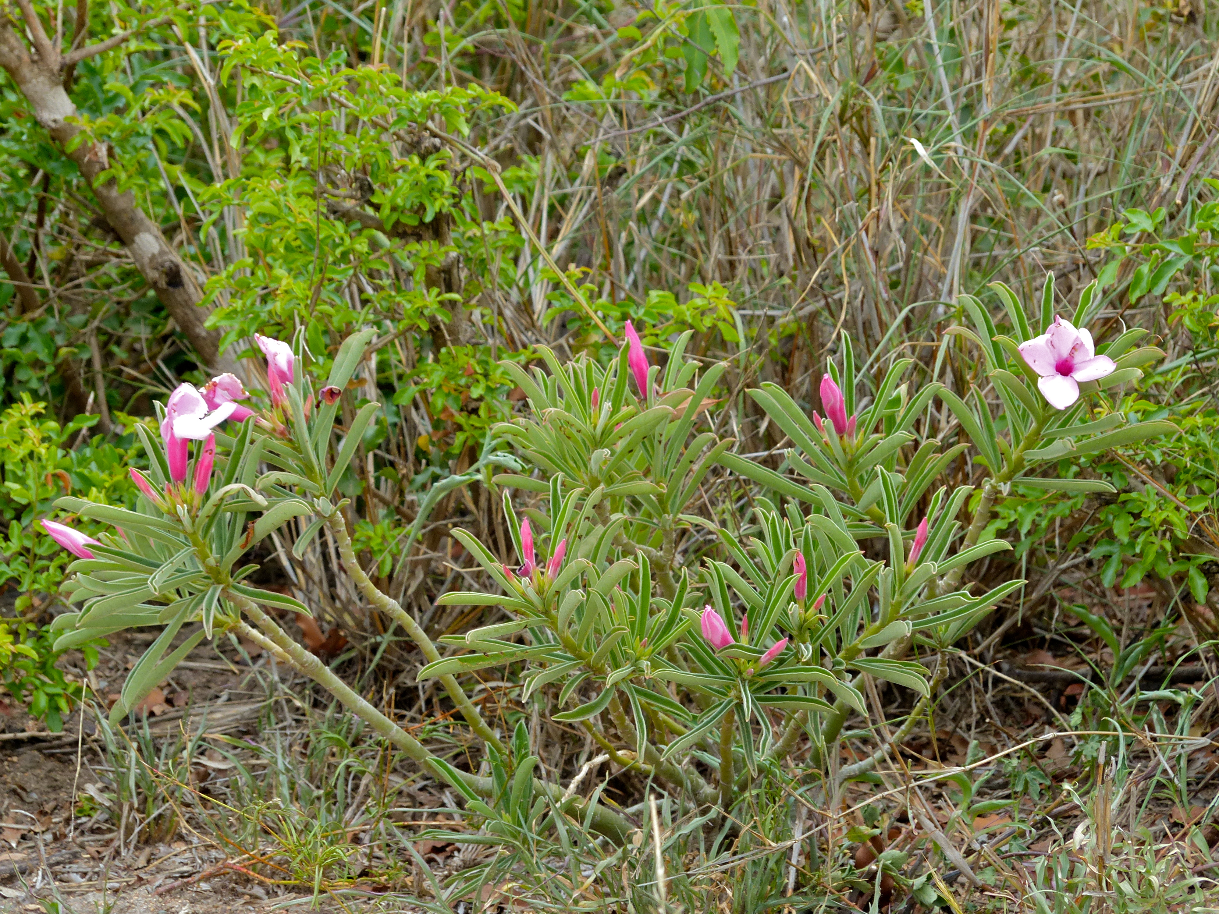 Rabelais Loop, East of Orpen, Kruger NP, SOUTH AFRICA